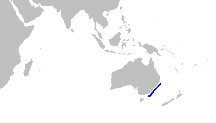 Distribution map for Pristiophorus sp A